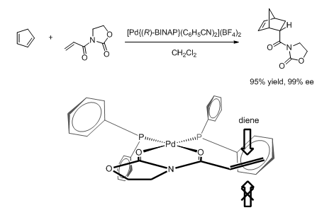 BINAP catalysis 2